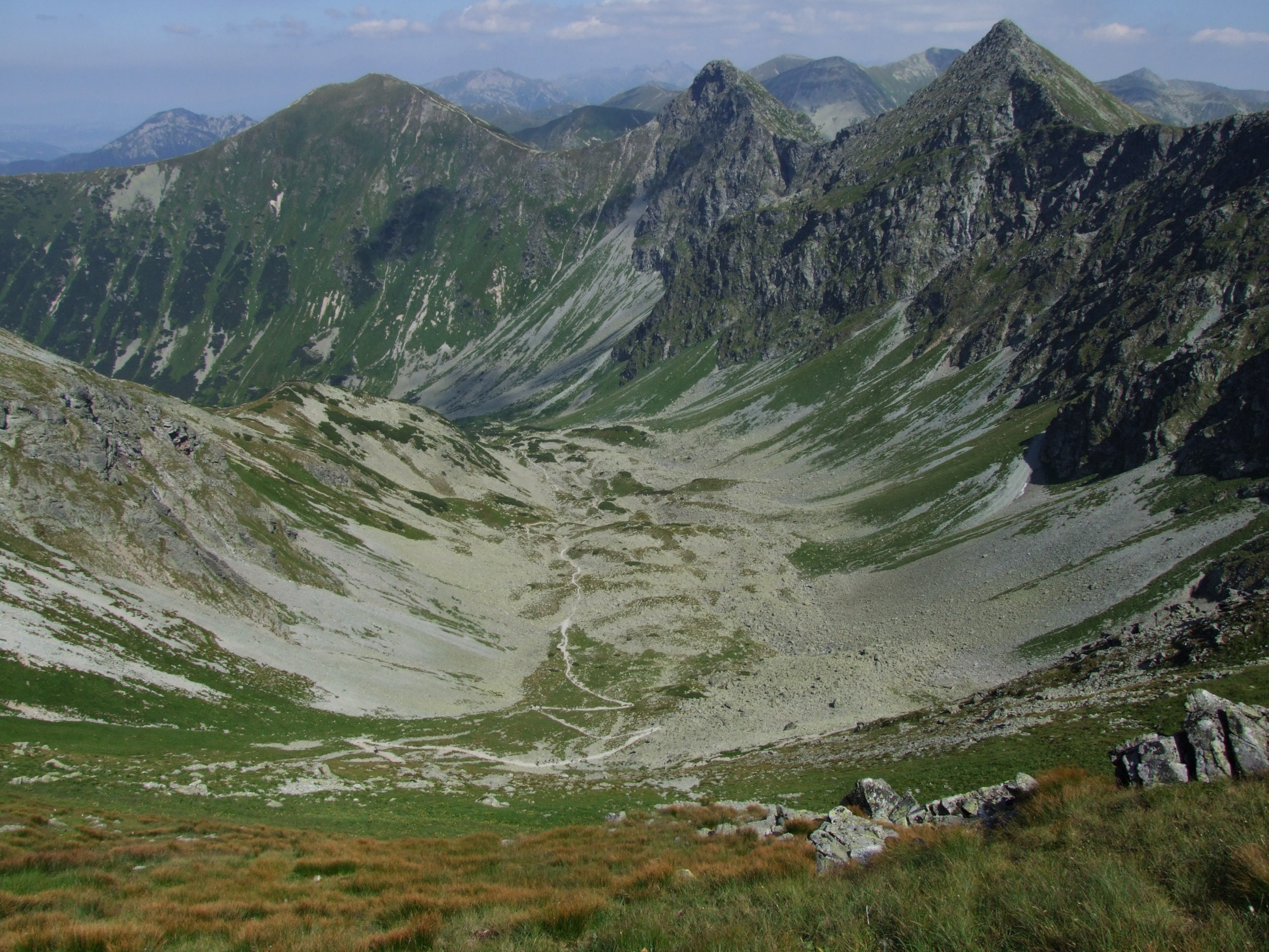 Smutna Dolina, Rohacze (West Tatra Mountains)